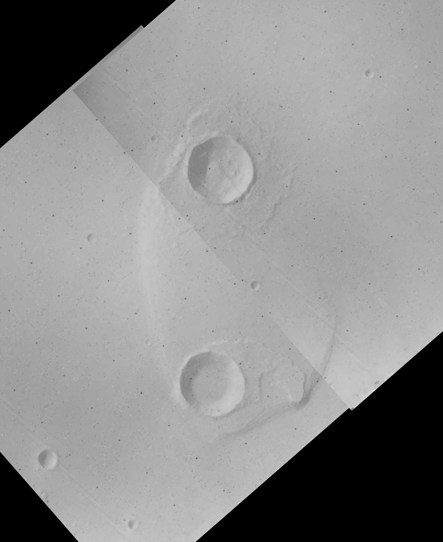 Lod (top) and Bok (bottom) craters on Mars. Mosaic of two Viking 1 images from camera A (4A51 and 4A53). Clear filter was used for these images. Resolution is about 40 m/pixel. Despeckled, contrast and brightness adjusted, and rotated so that approximate north is at top. Emission Angle: 15 Incidence Angle: 65 Latitude: 20.8 Longitude: 328.4 Phase Angle: 61